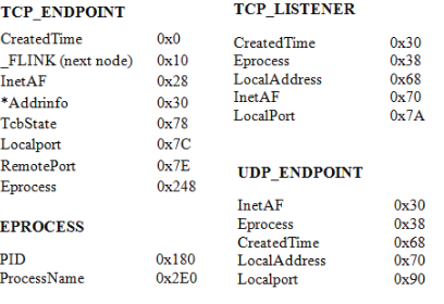 structures tcp